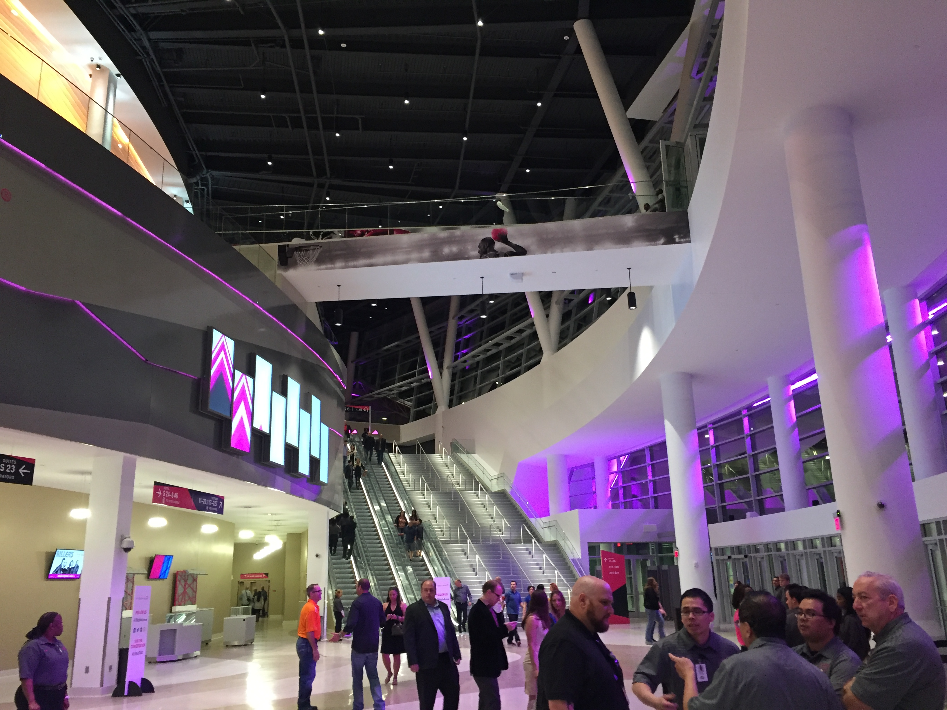 TMobile Arena inside main entrance